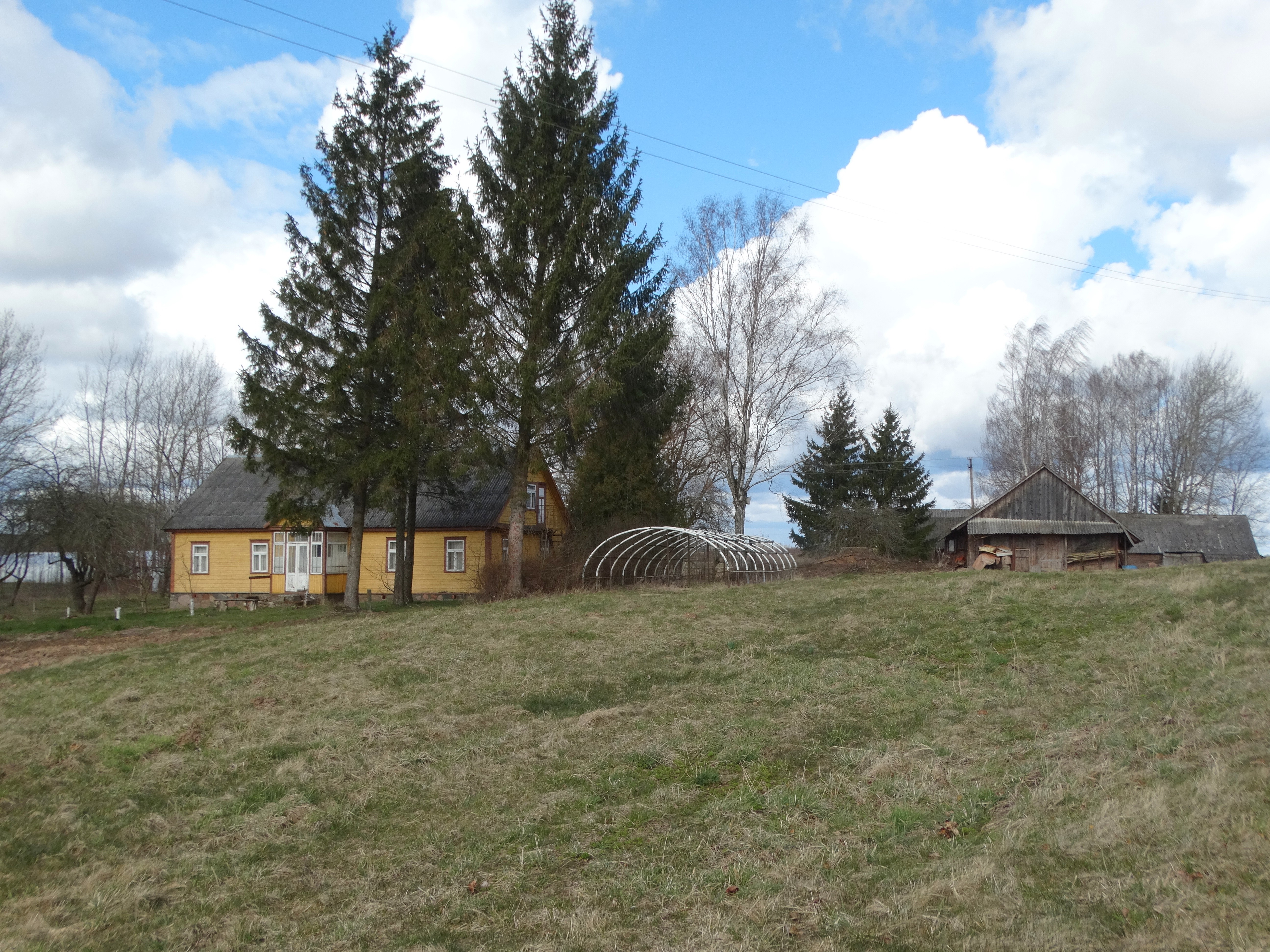 Papšiai, Anykščiai District, Lithuania